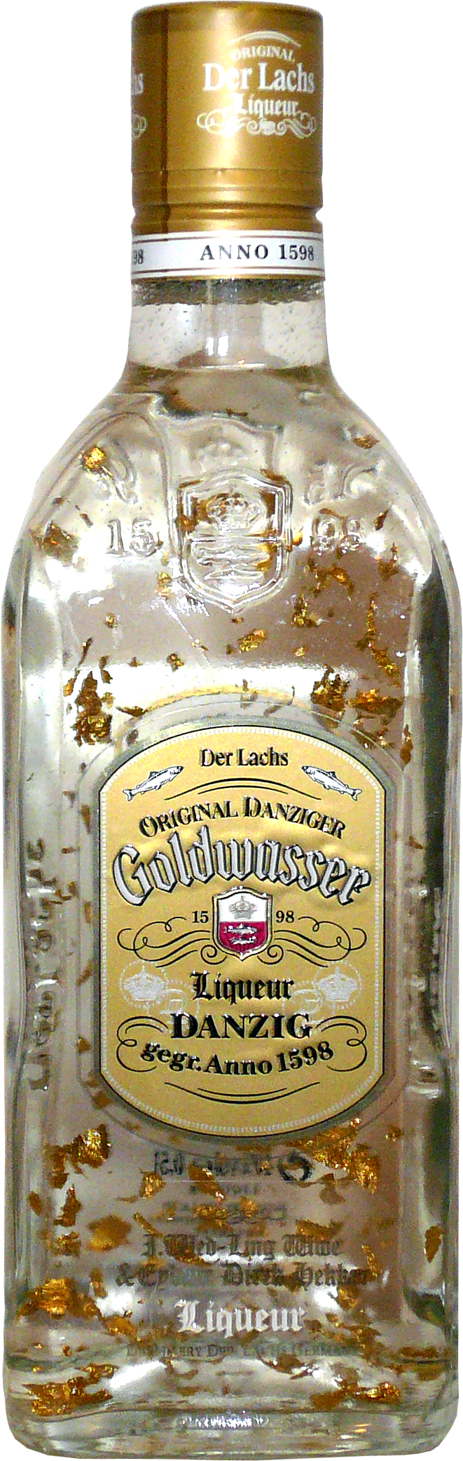 Goldwasser